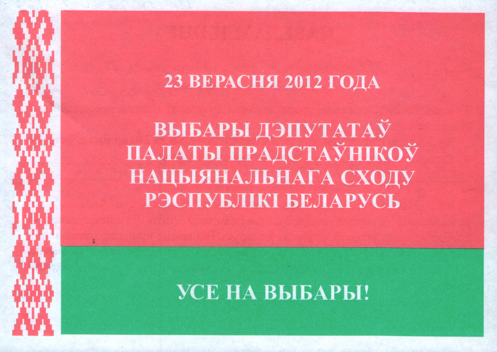 Invitation to parliamentary elections in Belarus, 2012. Translation: 23 September 2012 // ELECTIONS OF THE MEMBERS // OF THE HOUSE OF REPRESENTATIVES // OF THE NATIONAL ASSEMBLY // OF THE REPUBLIC OF BELARUS // EVERYONE COME TO THE ELECTION!